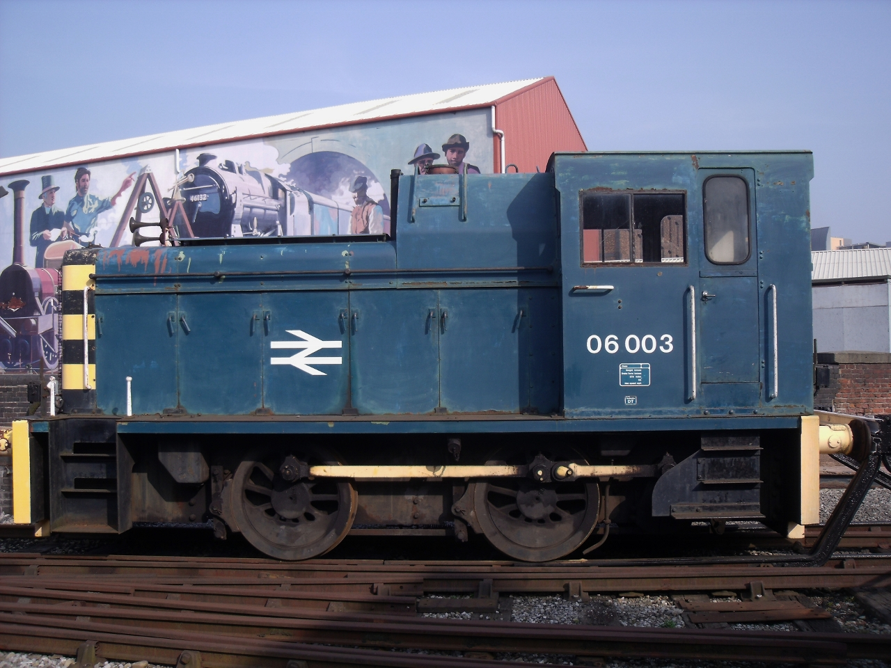 The British Rail Class 06 is a class of 0-4-0 diesel-mechanical shunters built by Andrew Barclay from 1958 to 1960 for use on the Scottish Region of British Railways. They were originally numbered D2410-D2444 and later given the TOPS numbers 06001-06010